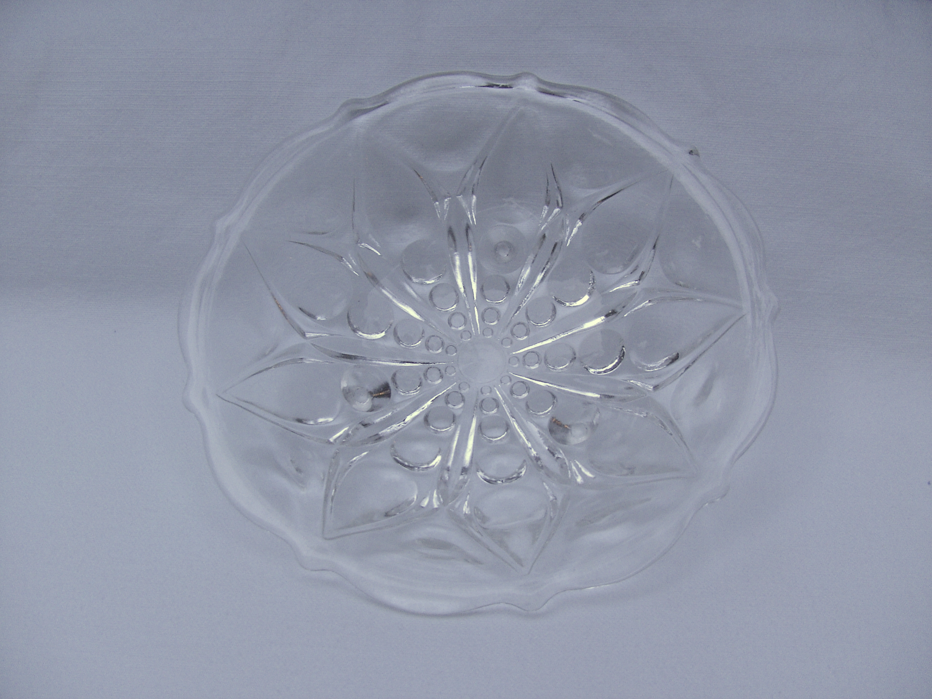 Anchor Hocking Crystal 920 Teardrop and Dot pattern